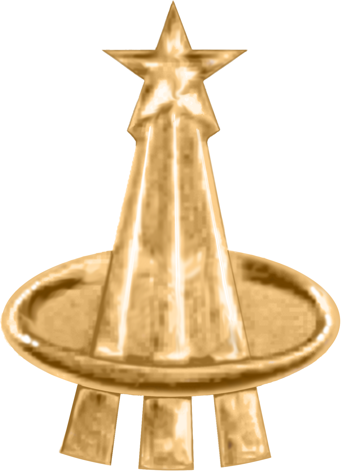 NASA Astronaut lapel pin. Made with Photoshop.